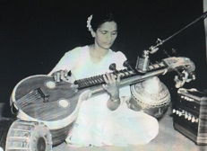 Kalyani Varadarajan playing the veena. Picture taken sometime during the 1950s